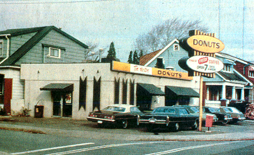 For StreetBeat, Mon. Jan. 29, 2007. Just when did that first Tim Hortons really open on Ottawa Street North? (Goes with picture of city hall)